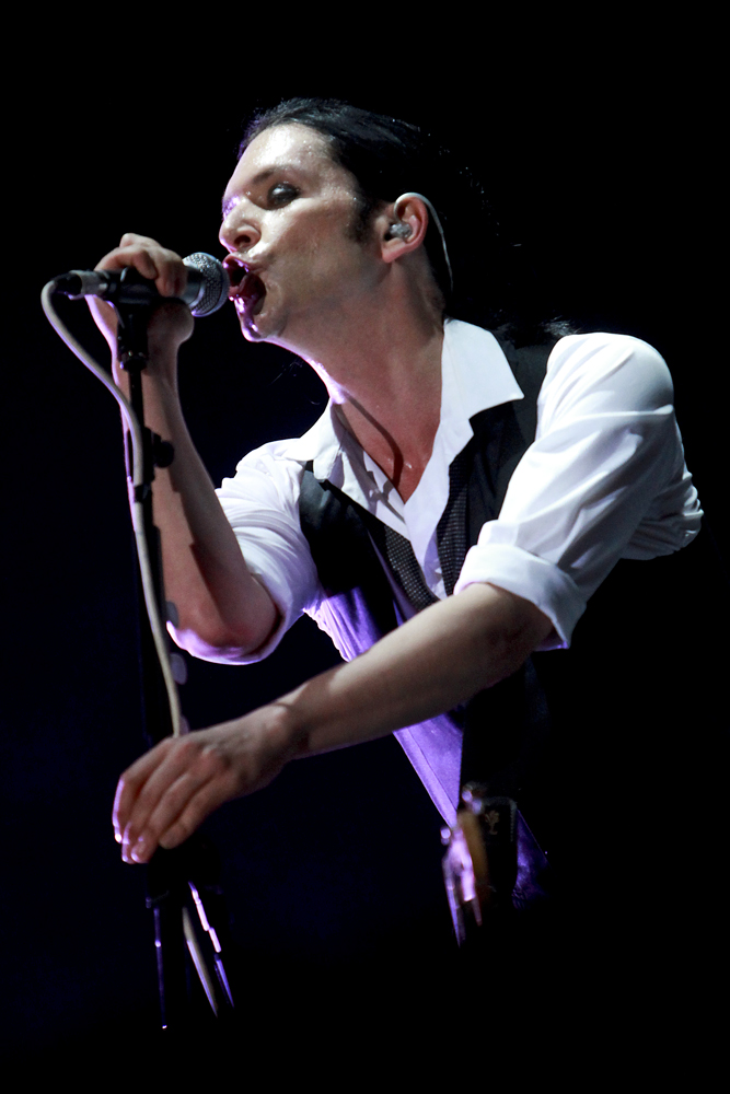 Brian Molko from rock band Placebo at Optimus Alive Festival (Portugal) on the 10/07/09